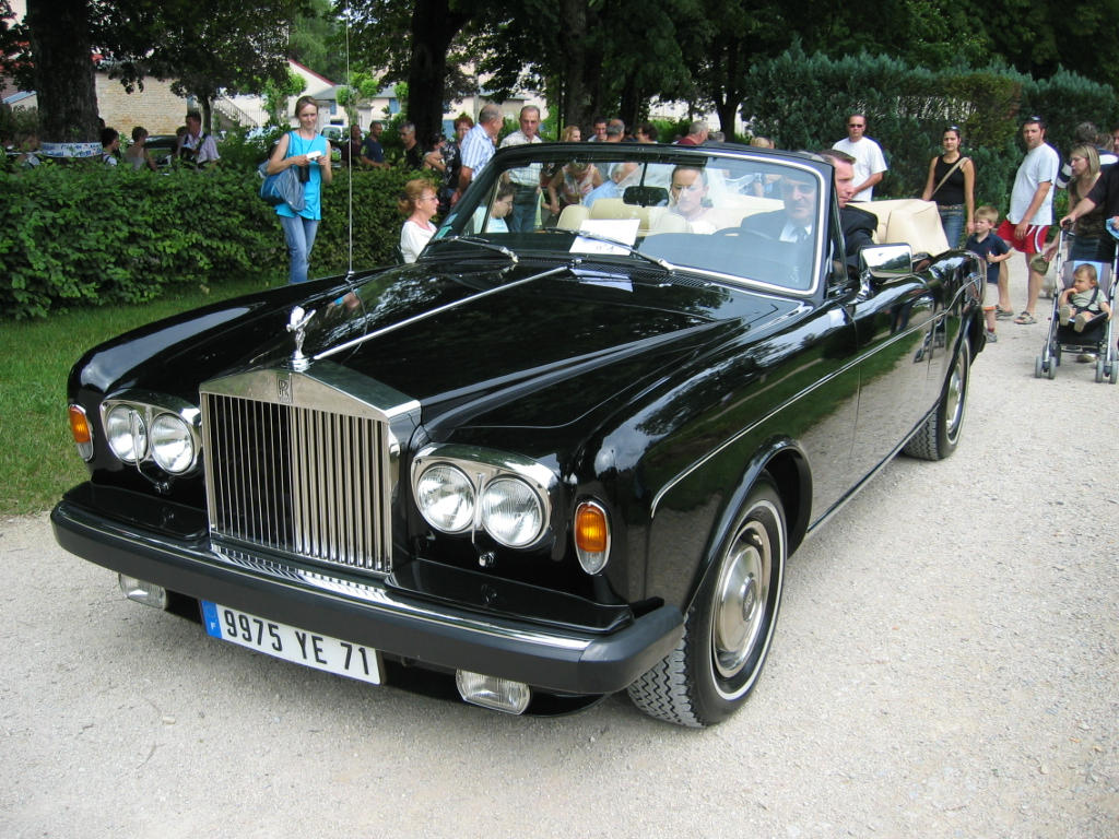 Rolls-Royce_Corniche